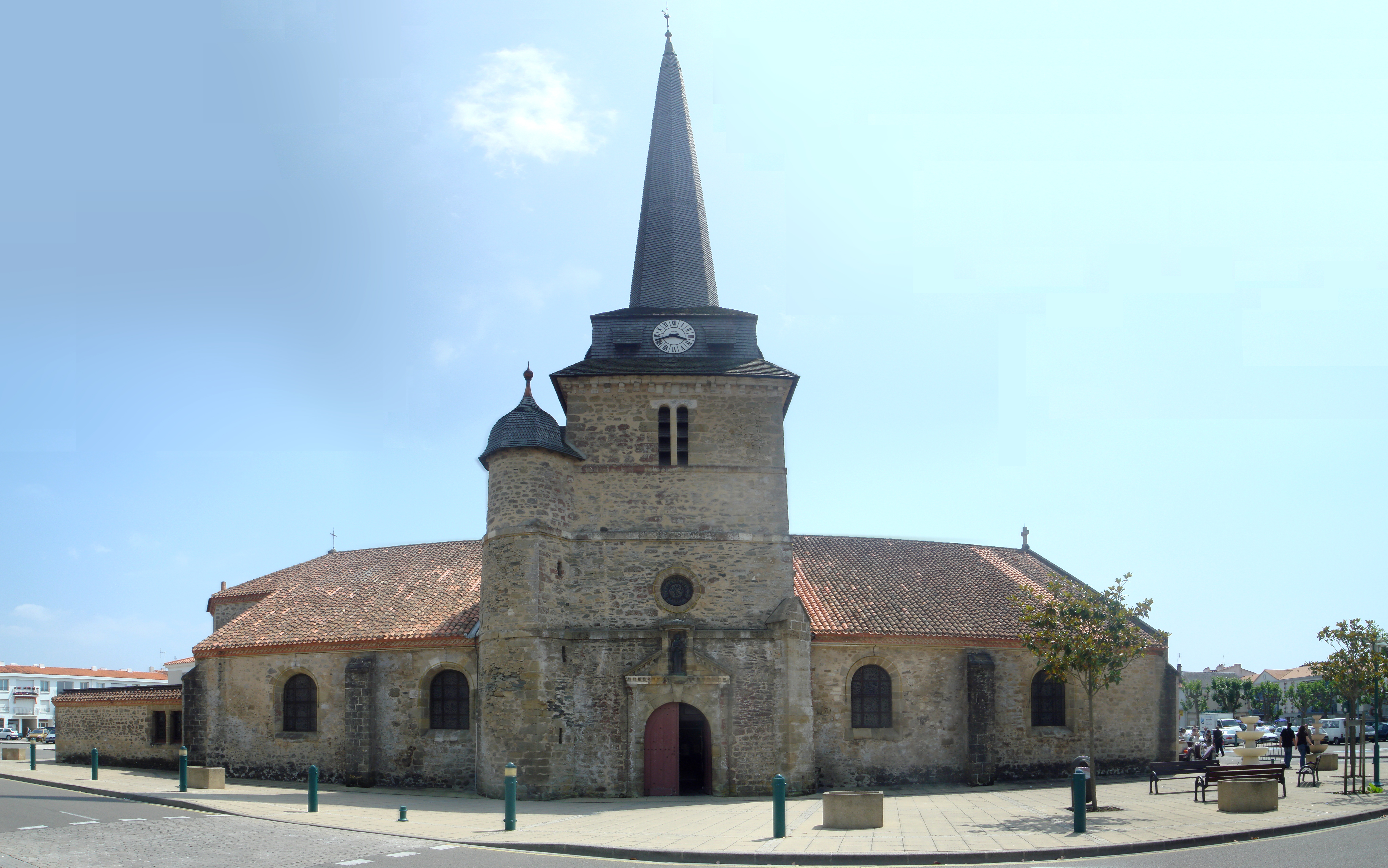 The Church of Saint-Jean-Baptiste, at Saint-Jean-de-Monts, the Vendée, France.